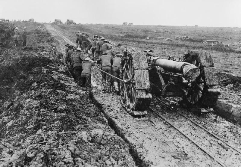 THE BATTLE OF THE SOMME 1 JULY - 18 NOVEMBER 1916 A 6 inch howitzer being hauled by manpower on caterpillar tracks through the mud near Pozieres. Comment : The devices around the wheels to prevent them sinking in the mud are otherwise known as girdles.